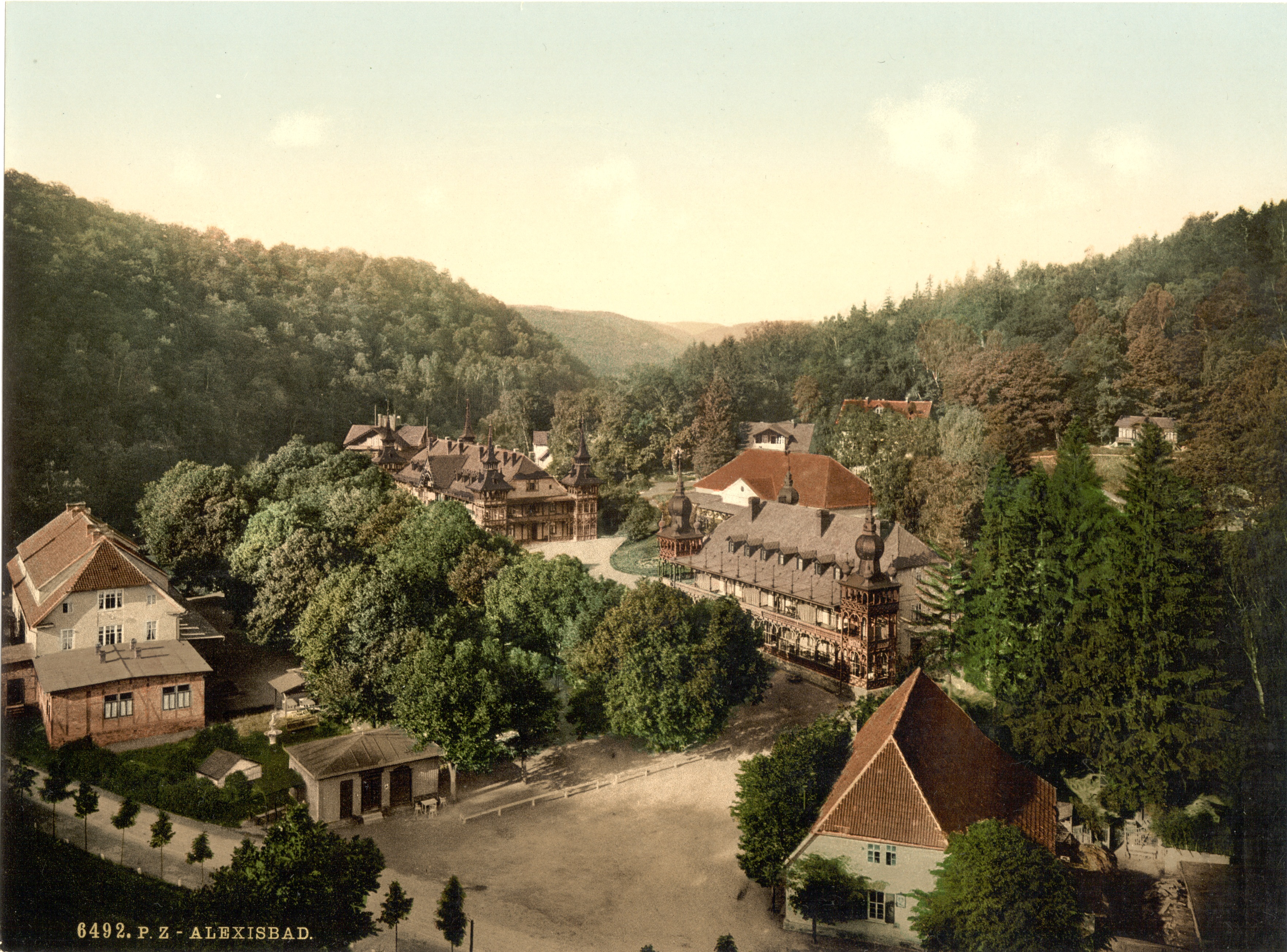 Title from the Detroit Publishing Co., catalogue J-foreign section. Detroit, Mich. : Detroit Photographic Company, 1905.; Print no. "6492".; Forms part of: Views of Germany in the Photochrom print collection.